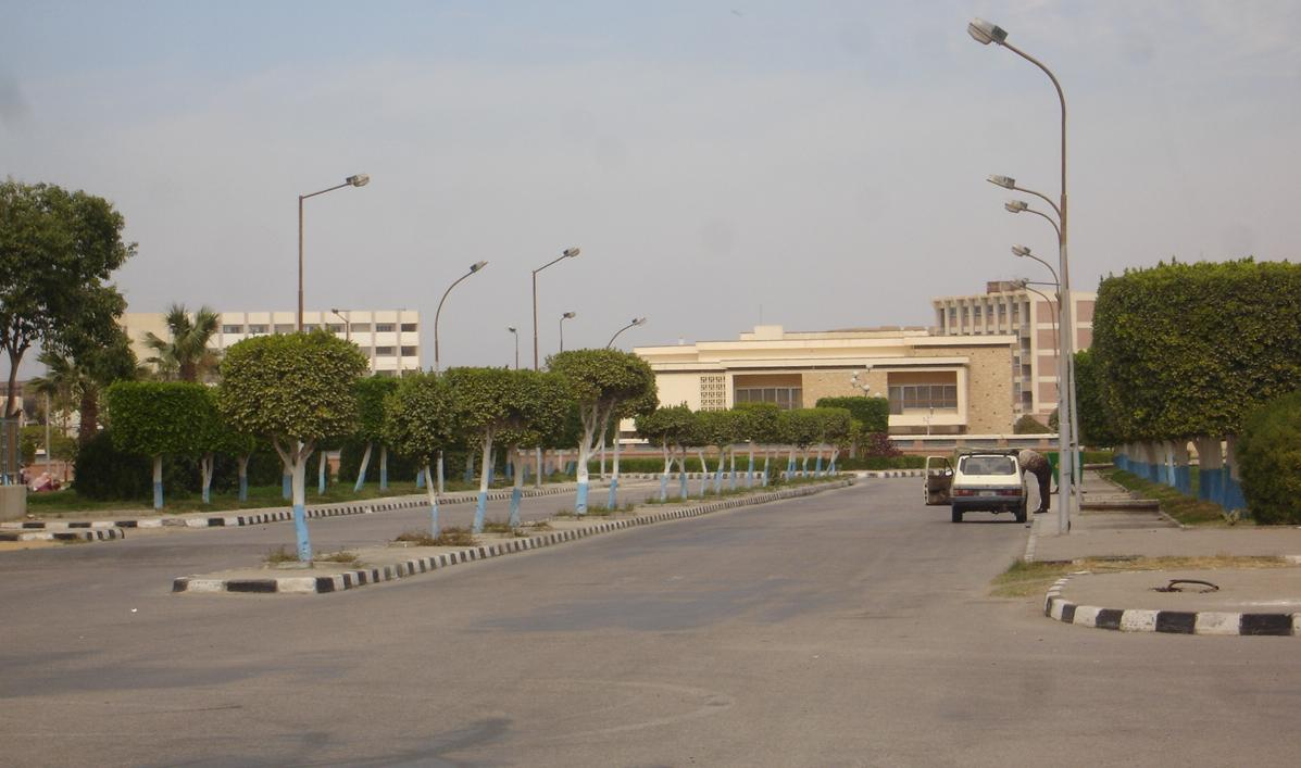 The house of late president Muhammad Anwar al-Sadat in Suez. (Author: Amr Fayez) (Source:Self-made)